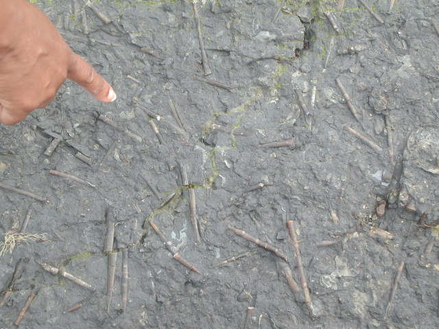 Low tide at foot of Golden Cap Fossil belemnites in blue lias clay at low tide at foot of Golden Cap